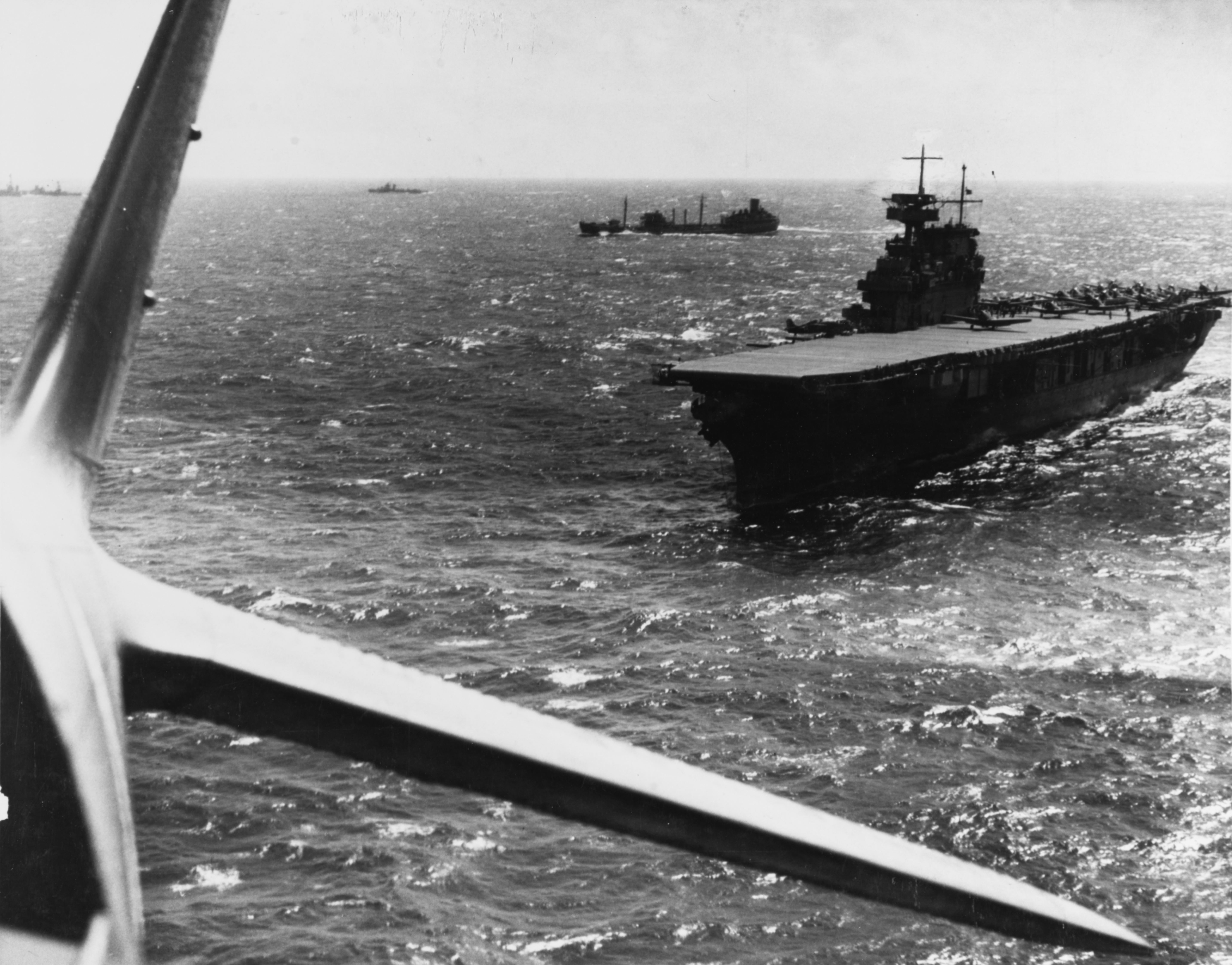 The U.S. Navy aircraft carrier USS Yorktown (CV-5) operating in the Pacific in February 1942, photographed from a Douglas TBD-1 torpedo plane that has just taken off from her deck. Other TBD and SBD aircraft are also ready to be launched. A F4F-3 "Wildcat" fighter is parked on the outrigger just forward of the island. The other ships in company include the fleet oiler USS Guadaloupe (AO-32), a destroyer and a heavy cruiser. This view has been retouched to censor the CXAM-radar antenna mounted atop Yorktown's foremast.